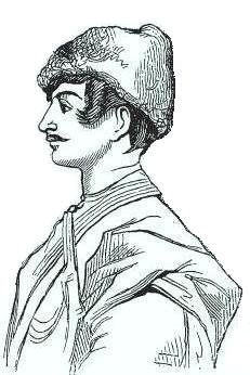 "A Georgian", from: The inhabitants of the Caucasian country include a great number of tribes, evidently derived from a variety of stocks, and speaking a diversity of languages. The vignette presents types of some the the more important of these tribes. 1 Represents a Tcherkessia, or Circassian 2 A Mmingrelian 3 a Nogai Tartar 4 A Georgian 5 An Armenian 6 A Lesghian 7 A Cossack of Terek Source: An Illustrated Description of the Russian Empire, by Robert Sears Available from Published: 1855